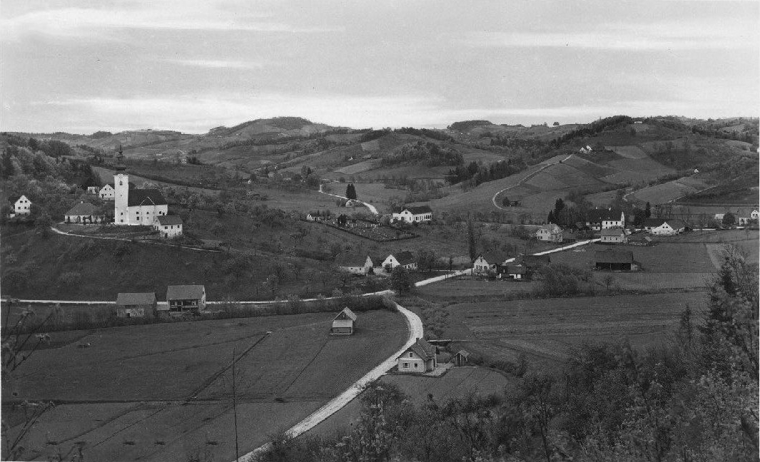 Postcard of Zgornja Kungota